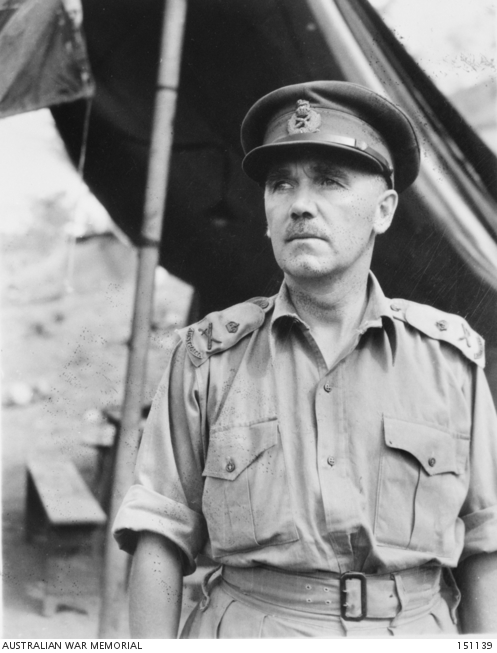 New Guinea. November 1942. Informal portrait of Lieutenant General Edmund Herring, Commander New Guinea Force at his field headquarters soon after the conclusion of the Kokoda campaign in which the ...